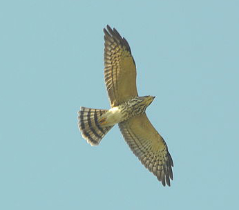 Juvenile of chinese sparrowhawk (Accipiter soloensis) at Mount Tumpa, North Sulawesi